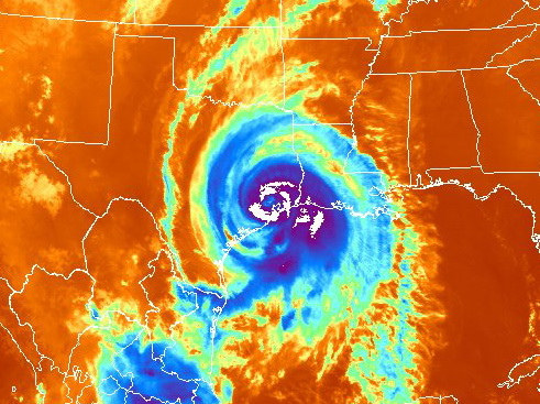 Hurricane Ike shortly after landfall, Galvestone 2008/09/13 - 08:45 UTC